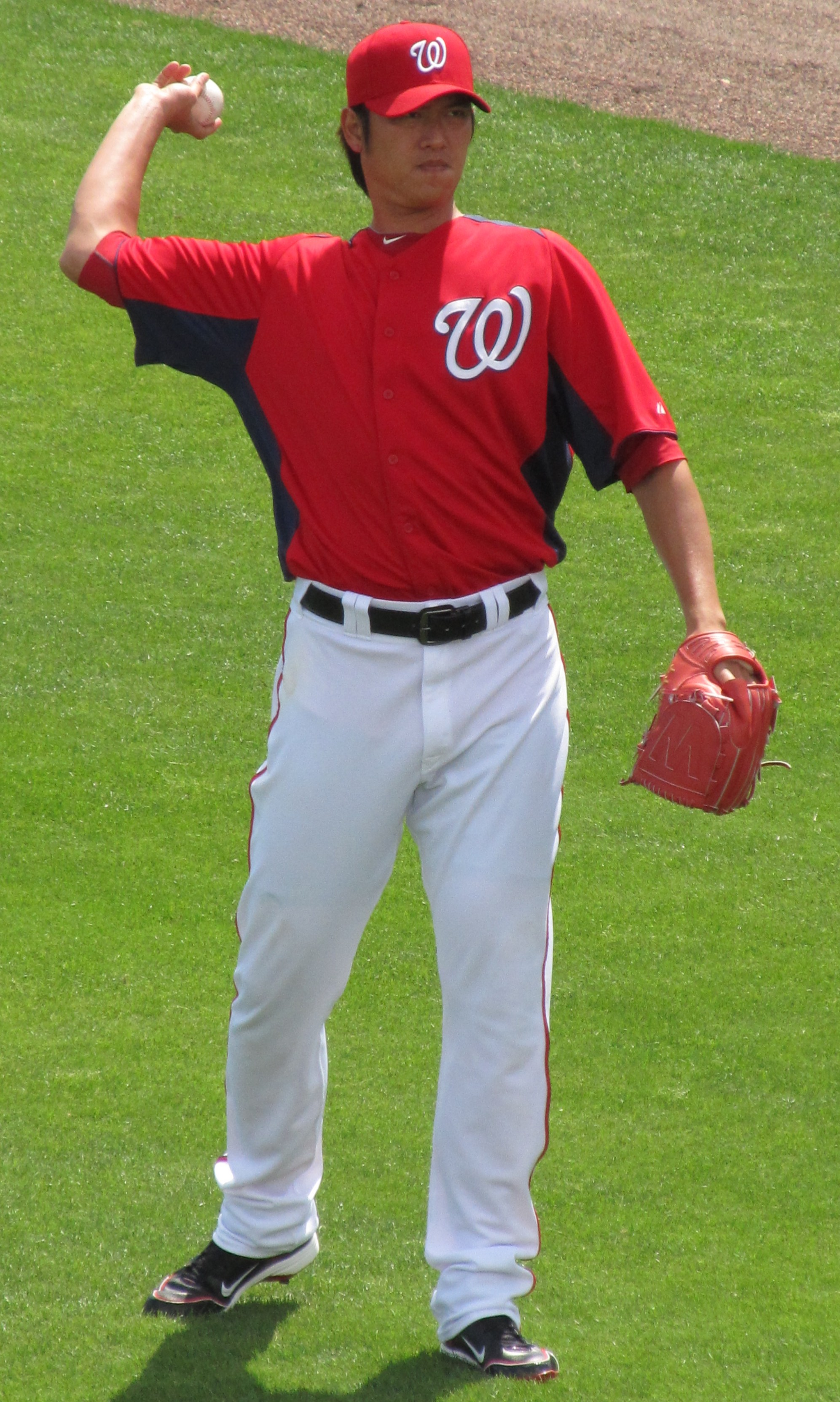 Chien-Ming Wang playing for 2012 Washington Nationals Spring Training